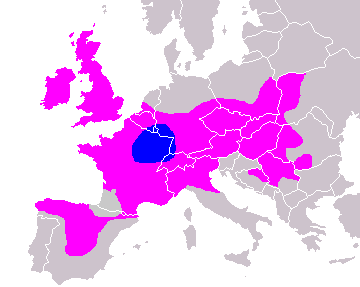 This is a rough estimate from several (unspecified!) sources. Blue = core of the La Tène culture around 500 BCE. Purple = extent of Celtic influence in about 400 BCE. Dubious / inaccurate. Compare File:Celts, 4th century.PNG.